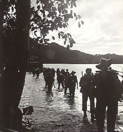 Troops from the Australian 37th/52nd Infantry Battalion come ashore at Watu Point, Open Bay, New Britain having marched across the island and then been ferried by barge from Mavelo Plantation.